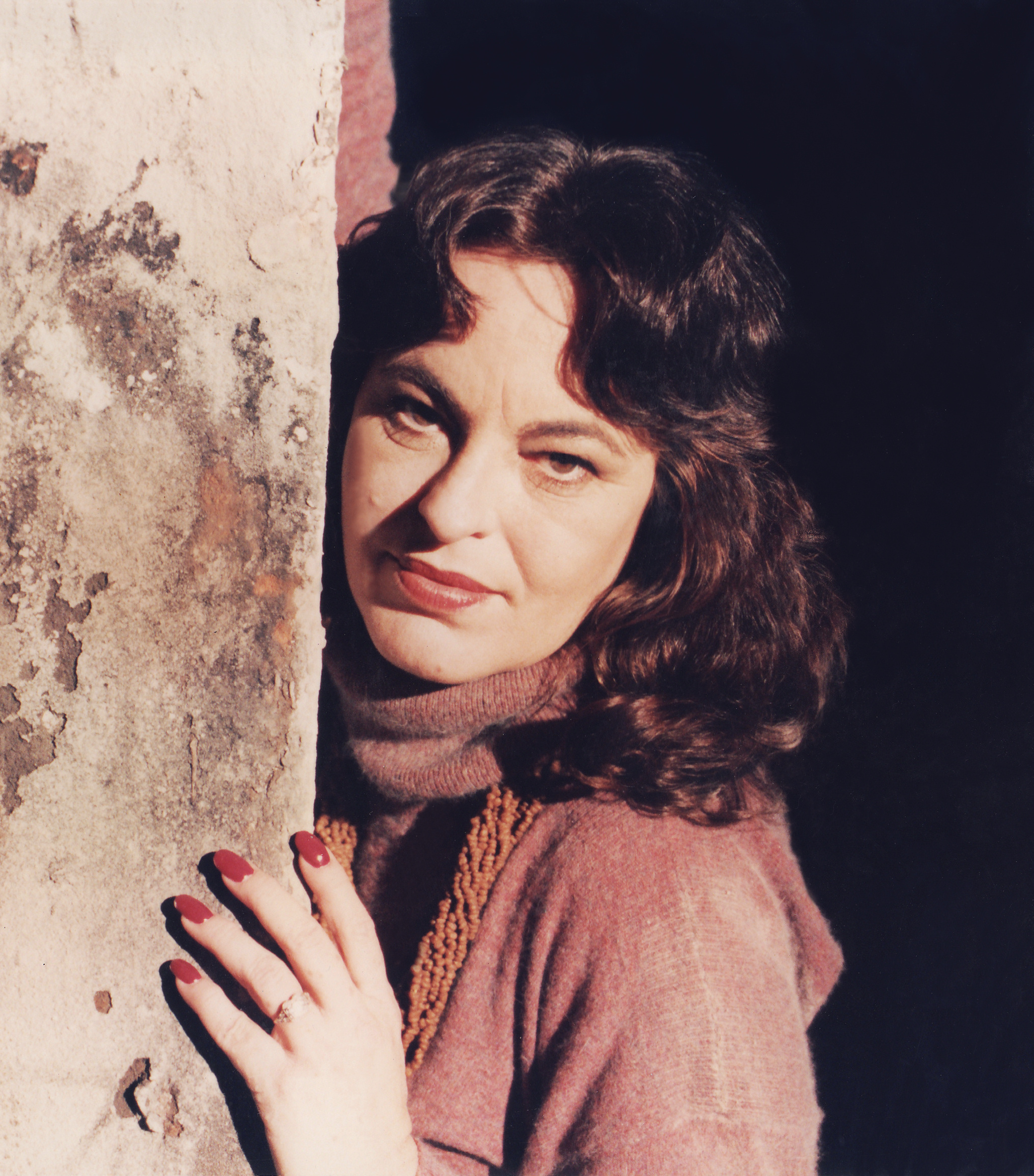 This photo of Sondra London was taken by Bob Chappell, Director of Photography, on the set of the Sondra London biopic filmed by Errol Morris.